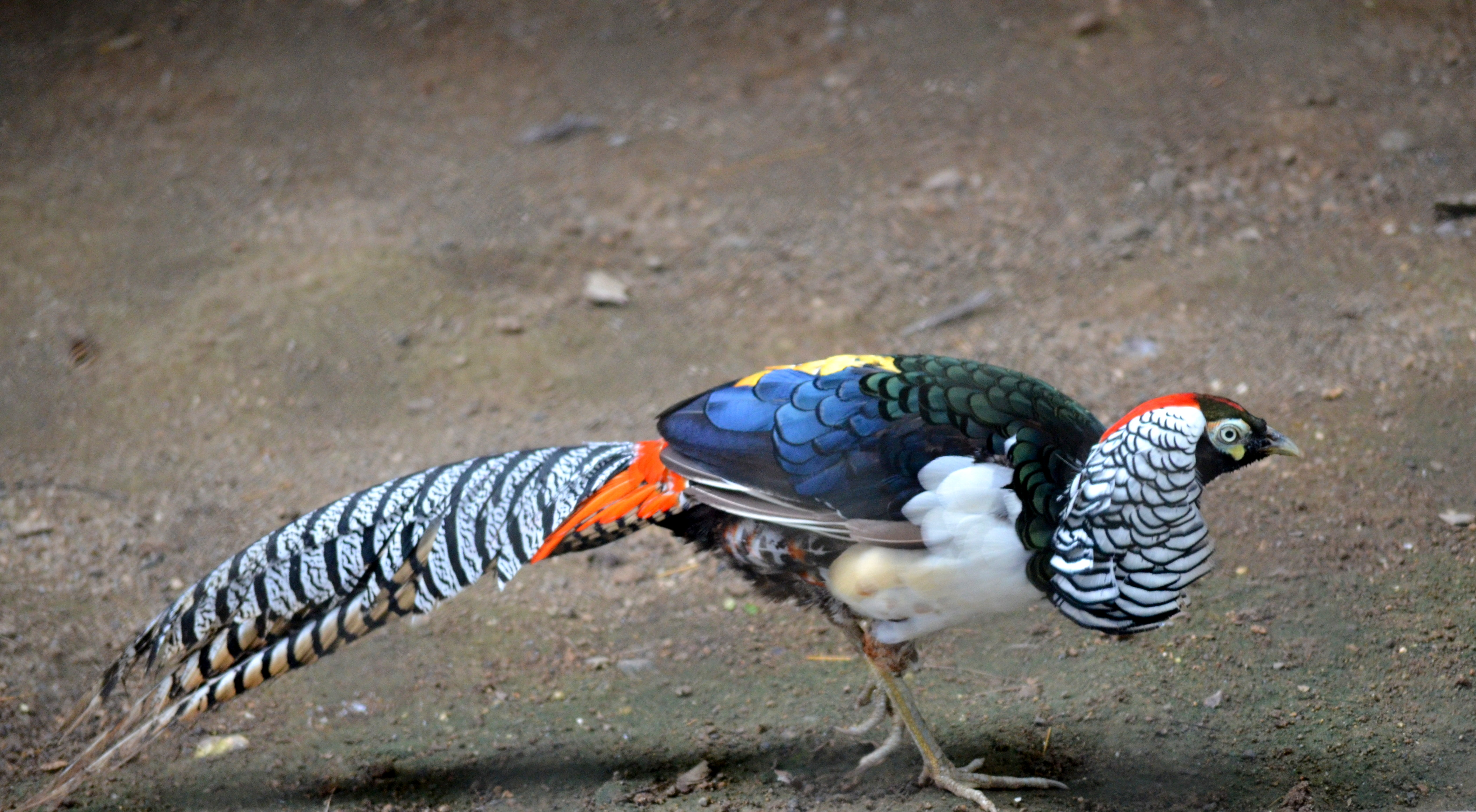 PHASENT